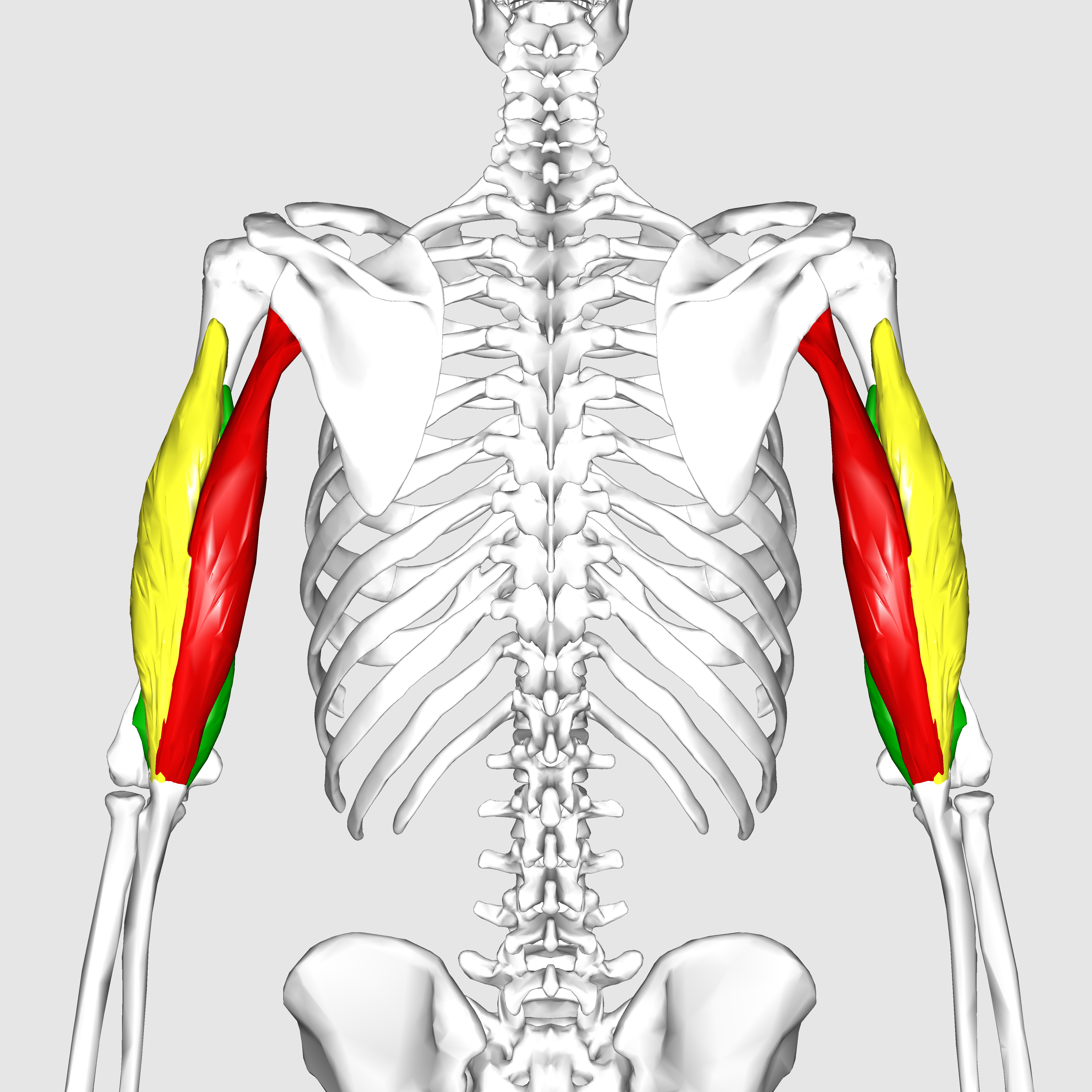 Triceps brachii muscle. Long head. Lateral head. Medial head.